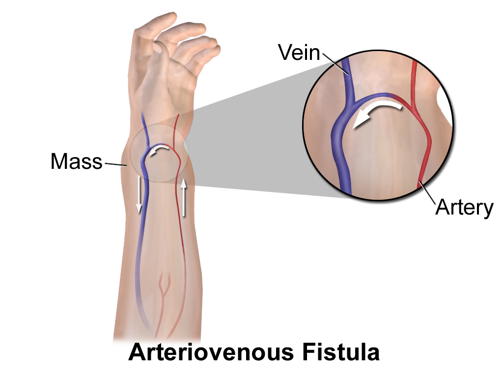 Arteriovenous Fistula. This image was donated by Blausen Medical. Please visit our website to see more medical illustrations and animations.